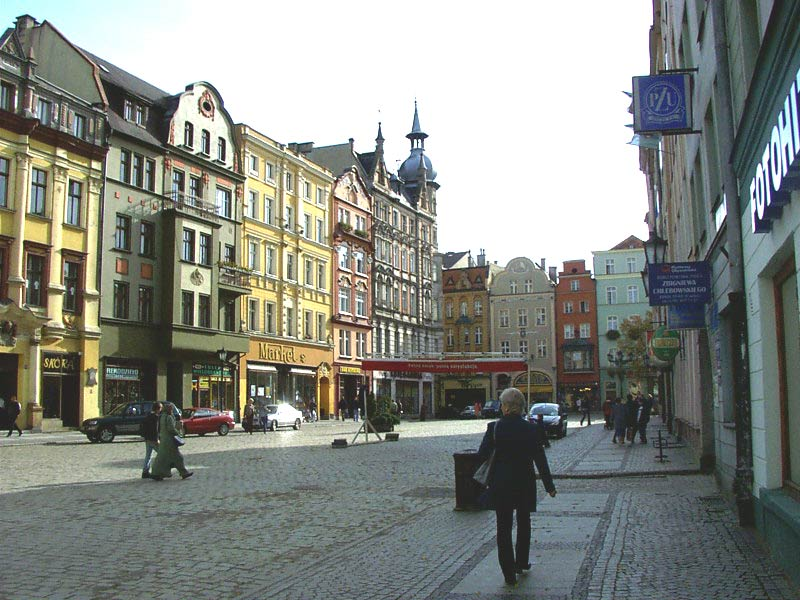 Old town of Świdnica